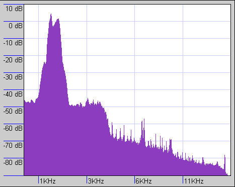 Fourier representation of FSK-modulated FAX-answering signal. Carrier frequency, low-bit and high bit representation are 1750, 1650 and 1850 Hz resp. --Fourier-Darstellung eines FSK- modulierten FAX-Quittierungstones. Mittenfrequenz, Darstellung des Low/High Bits: 1750, 1650 und 1850 Hz.